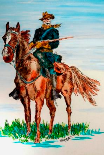 Depiction of 3rd US Cavalry SGT John Lannen by Frederick Remington in Cuba, 1898. Unofficial mascot of the US Cavalry.